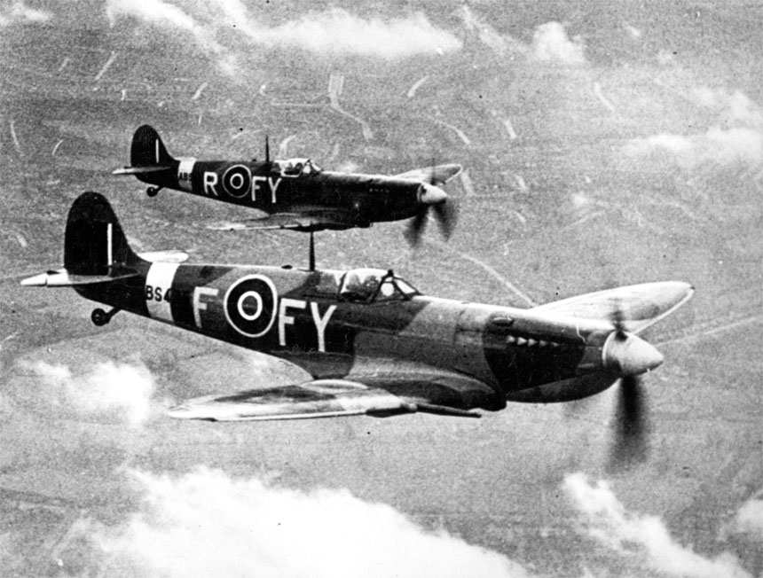 Two Royal Air Force Supermarine Spitfire Mk IX of No. 611 Squadron (West Lancashire), based at RAF Biggin Hill, London (UK), in 1943. Aircraft FY-F was flown by squadron CO Squadron Leader Armstrong (an Australian). The photo is part of a lager formation of eight Spitfires, taken out of a Lockheed Hudson as a public relations photo over Biggin Hill.